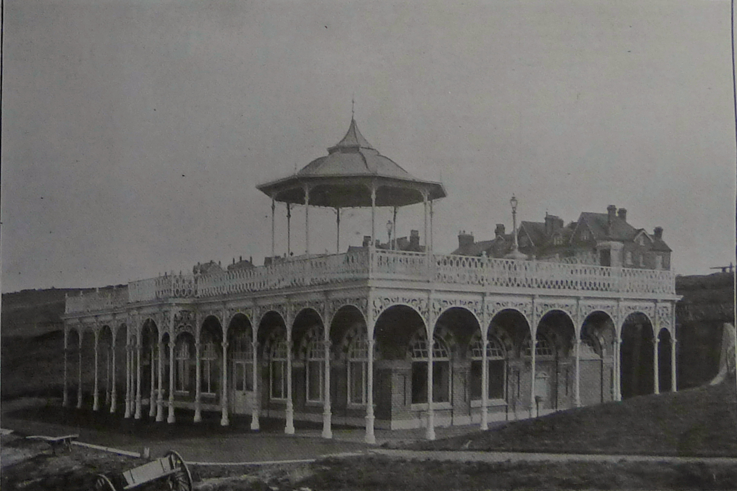 The Pavilion or Bandstand (later called the King's Hall), Herne Bay, Kent, England, at completion of its first phase, around March 1904. Points of interest The ironwork (which still exists) was originally painted white or a very light colour. The bandstand no longer exists on top of King's Hall.